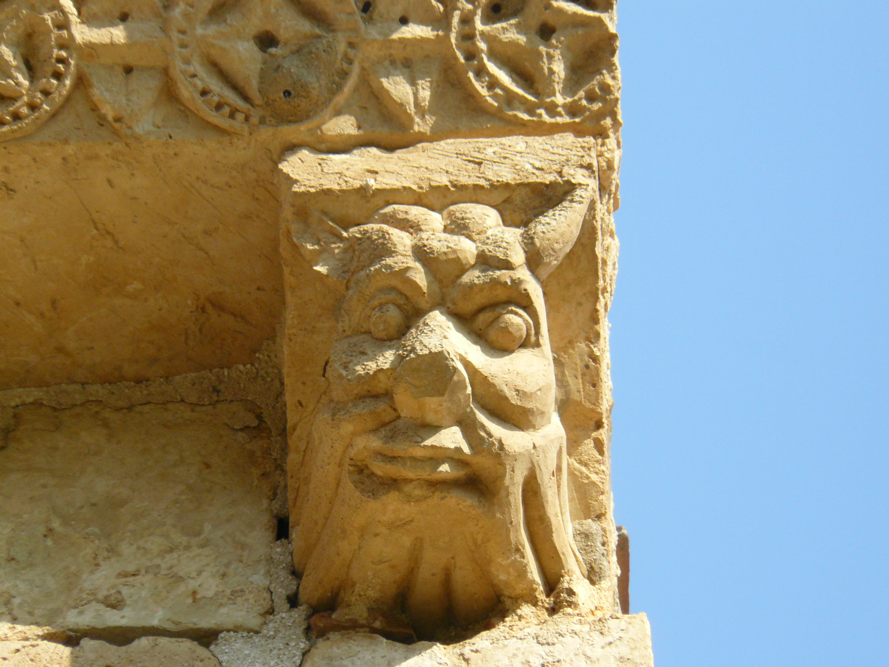 Bearded devil, Church of the Nativity of the Virgin, Sotillo, Segovia (Spain).